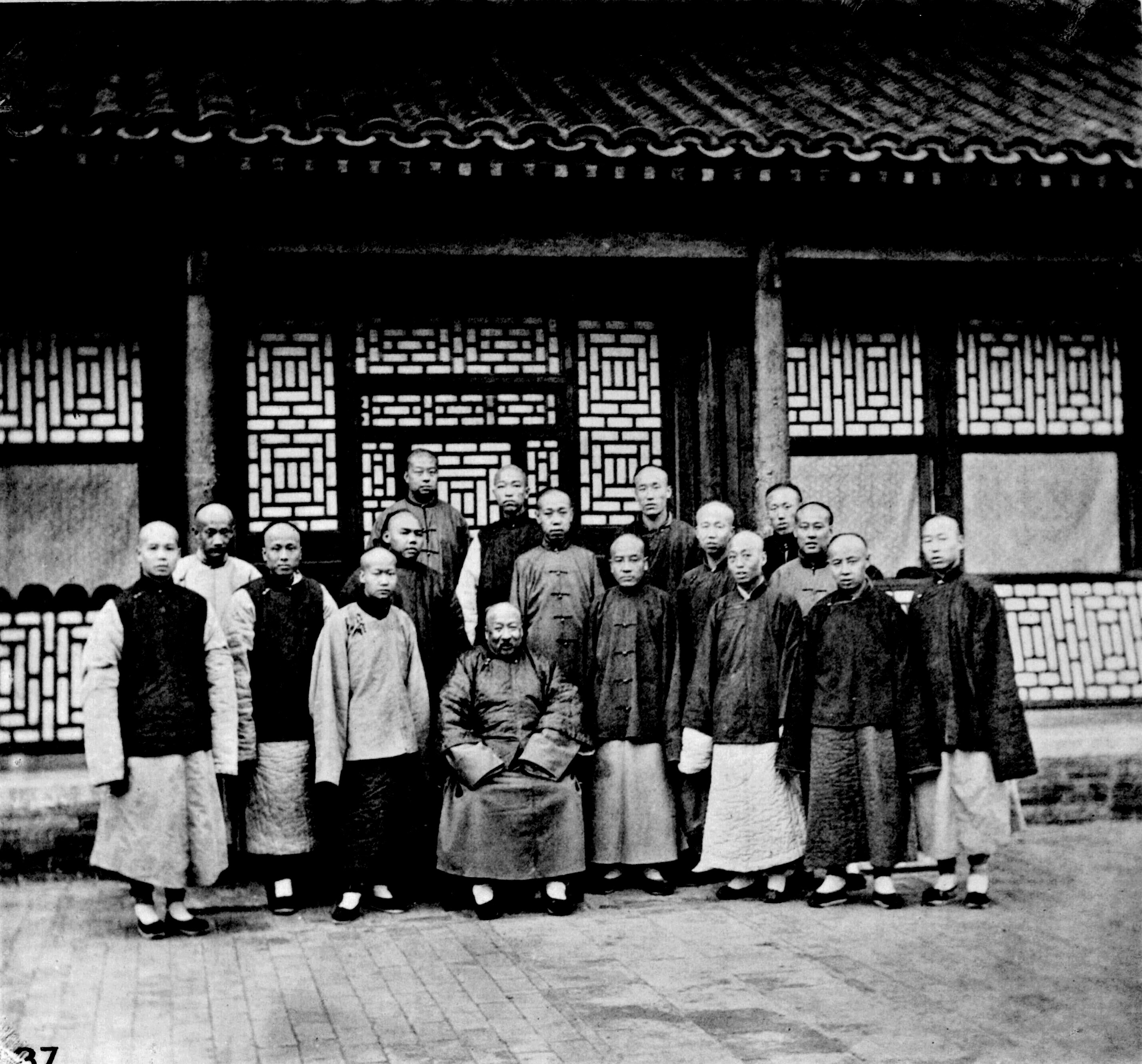 John Thomson: LE-SHEN-LAN is professor of mathematics in the Imperial College, Peking, and is now about sixty years of age. In his youth he studied thoroughly the native mathematics, reading the Jesuit translations, and the works of native authors as well. More than twenty years ago he visited Shanghai, and there made the acquaintance of the English missionaries. He remained for many years, translating works on mathematics and natural philosophy. Had it not been for the valuable aid afforded by Englishmen connected with the various Protestant missions, China could not have boasted such a mathematician as Le-shen-lan. a man who has reaped the advantage of Wylie's translation of Euclid's Elements, or rather his completion of the work which Ricci had begun when he translated the first six books about two centuries before; of the Tae-soo-heo, a treatise on algebra; and of the Tae-we-tseih-shth-keTh, or the Elements of Analytical Geometry, Differential and Integral Calculus, and other similar works. Some five or six years since, Le-shen-lan was recommended to the notice of the Emperor, and appointed to fill the post of professor of mathematics in the Peking College. He has compiled several small works on mathematics, for the most part original investigations, and appears to have a mind thoroughly adapted for mathematical study, being a minute and close reasoner, and accurate and rapid in calculation. He is presented to the reader, surrounded by his pupils, in No. 37.